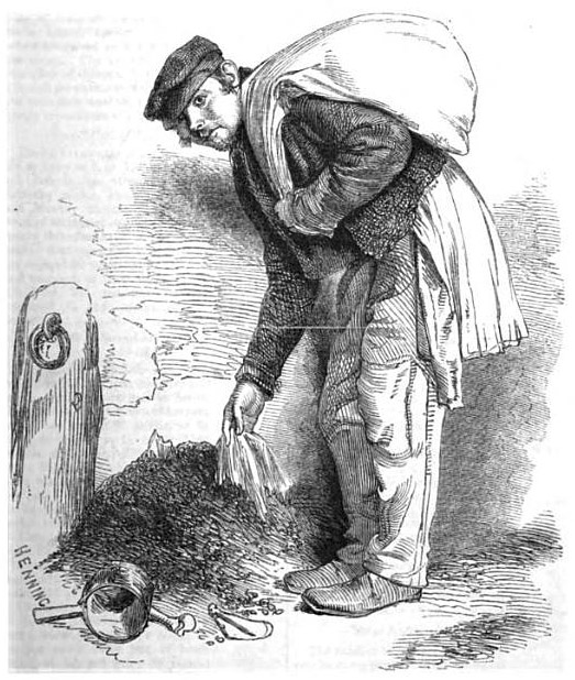 The Bone-Grubber, daguerreotype by Beard